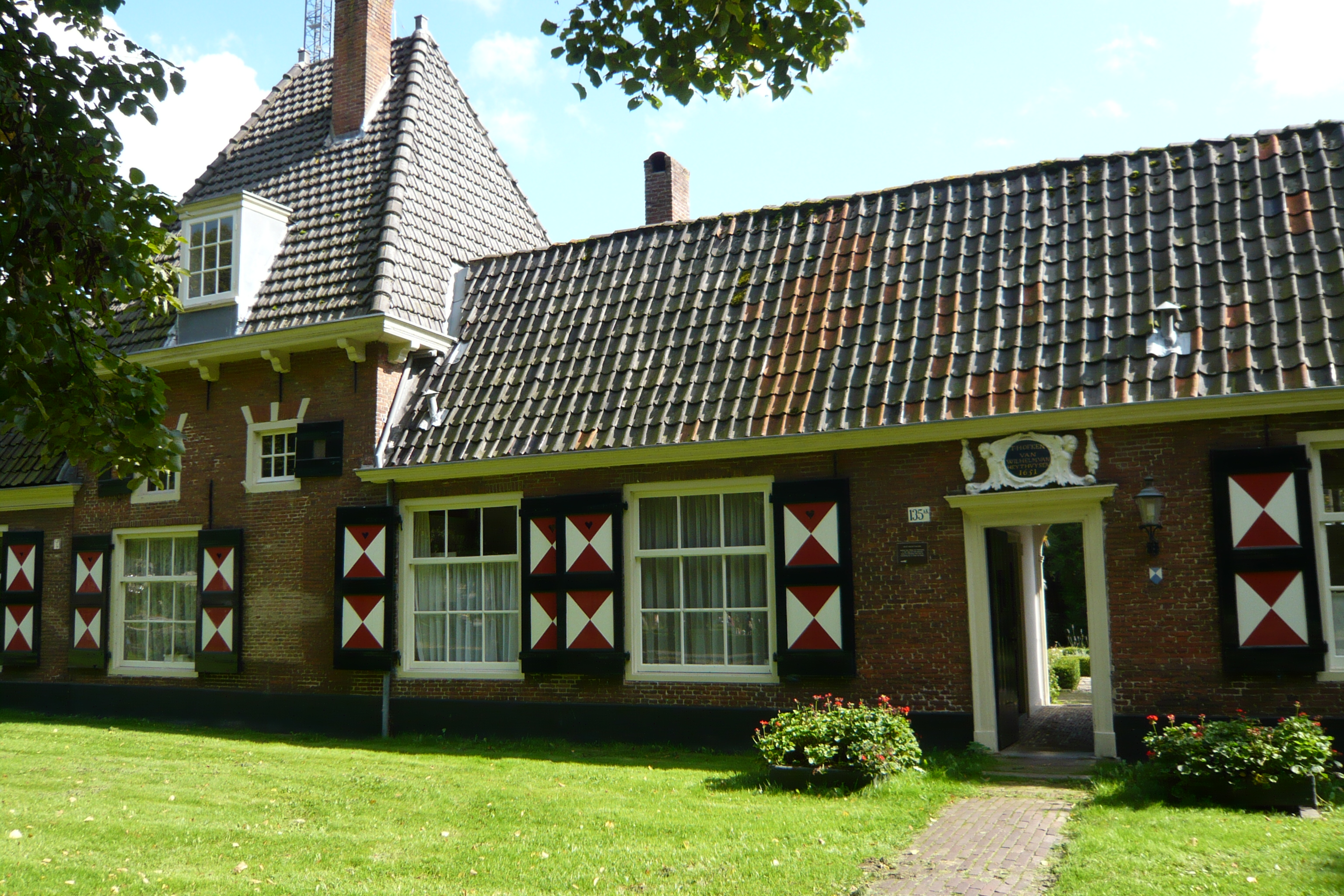 Front of "Willem van Heythuijsen" hofje on the Kleine Hout weg, in Haarlem, the Netherlands. It was founded in 1650.